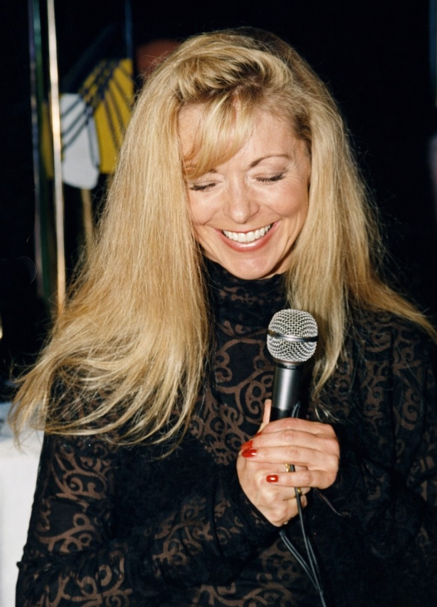 Ulli Kampelmann speaking at the opening of her exclusive exhibition of her artworks in the Stuttgart International Airport.